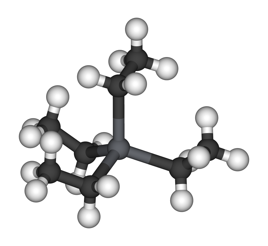 Tetraethyl lead